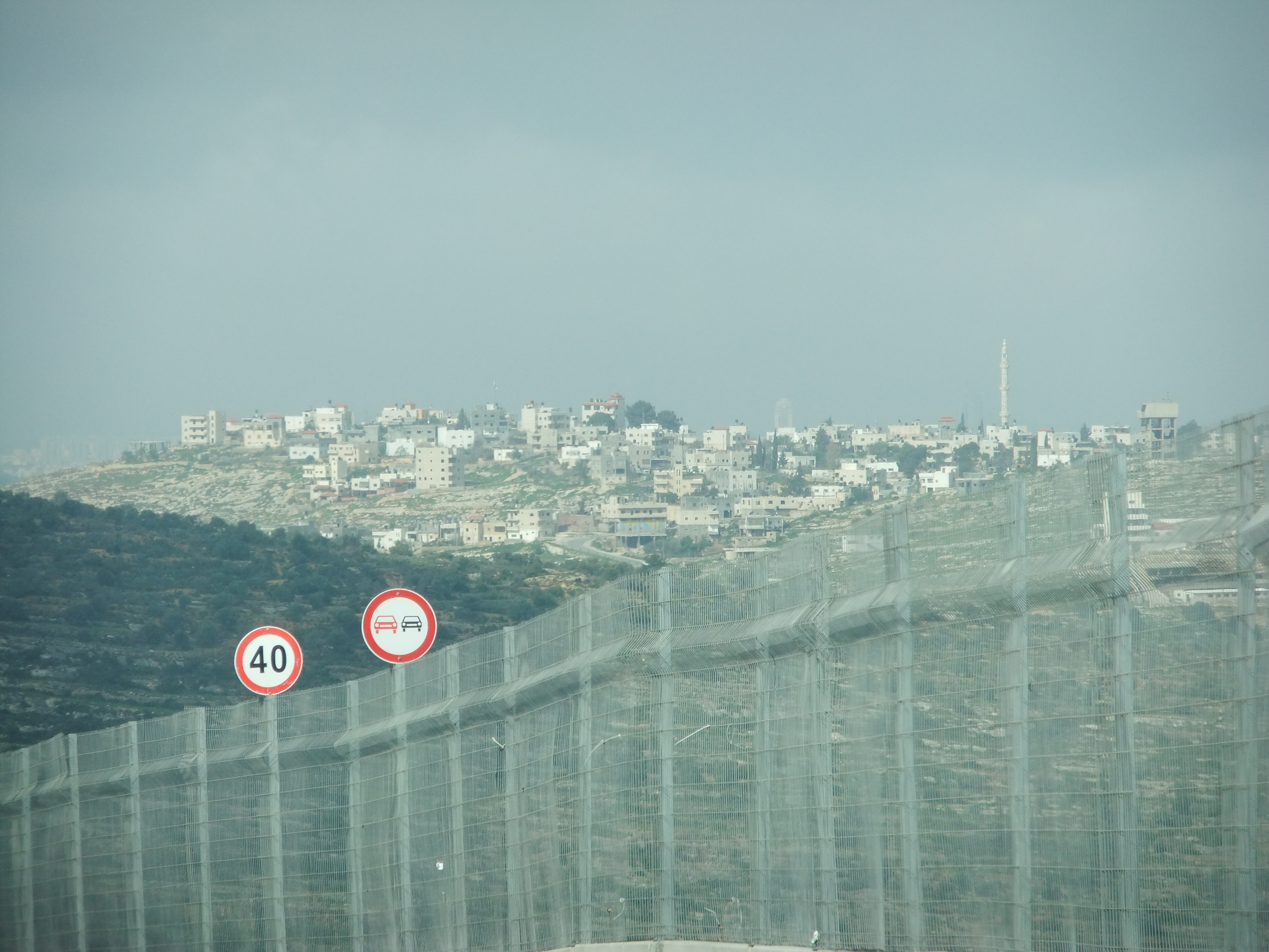 Kafr Ni'ma from Dolev